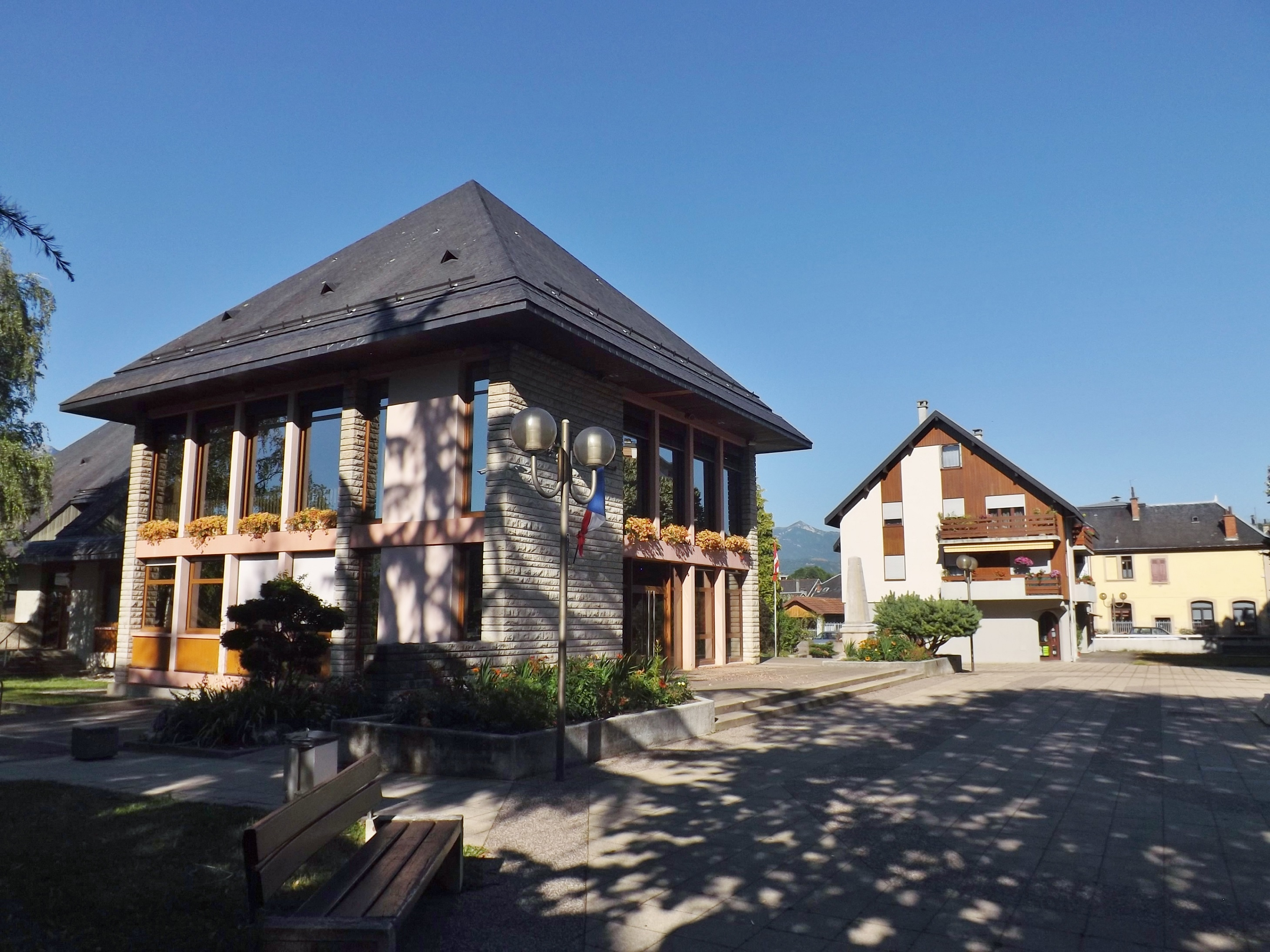 Sight, in the evening, of the commune of Cognin town hall, near Chambéry, Savoie, France.